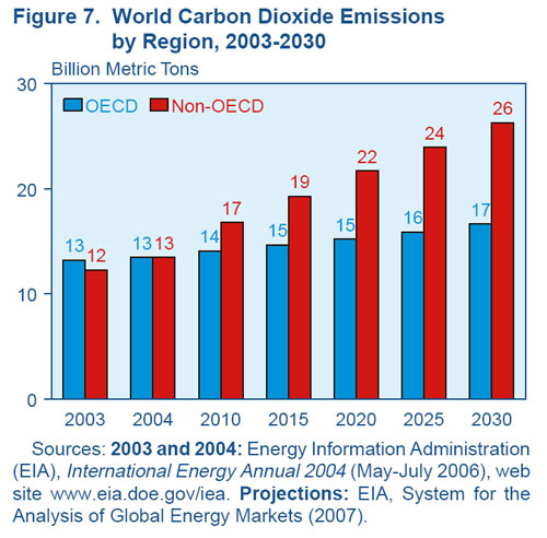 World CO2 emissions by region from the Energy Information Administration